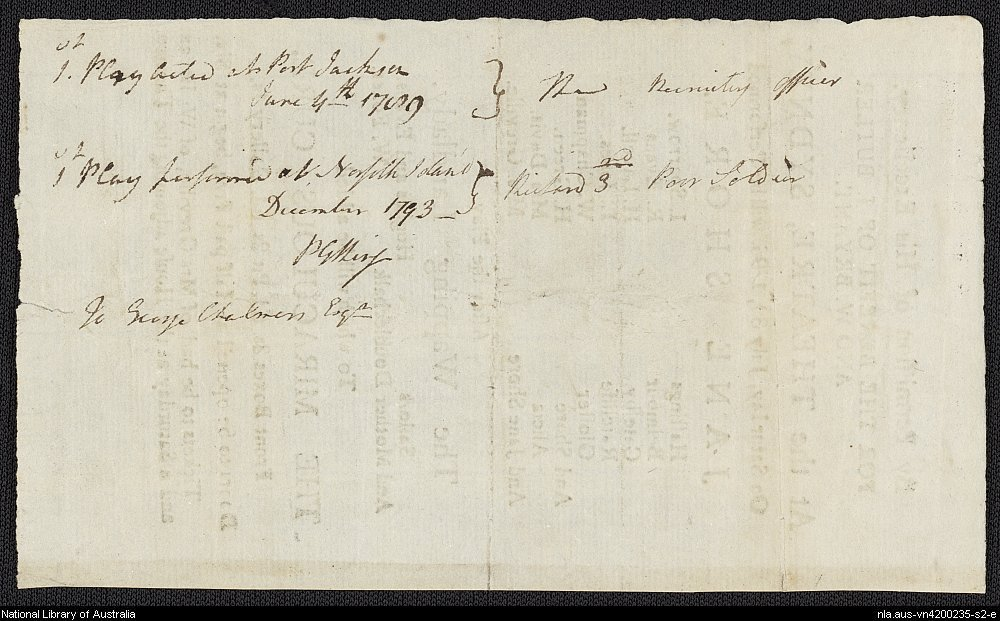 Inscriptions: "Play acted at Port Jackson, June 4th 1789 The Recruiting Officer" - Handwritten in iron gall ink on reverse. Inscriptions: "Play performed at Norfolk Island, December 1793 Richard 3rd Poor Soldier PG King" - Handwritten in iron gall ink on reverse. Inscriptions: "To George Chalmers Esqr" - Handwritten in iron gall ink on reverse.